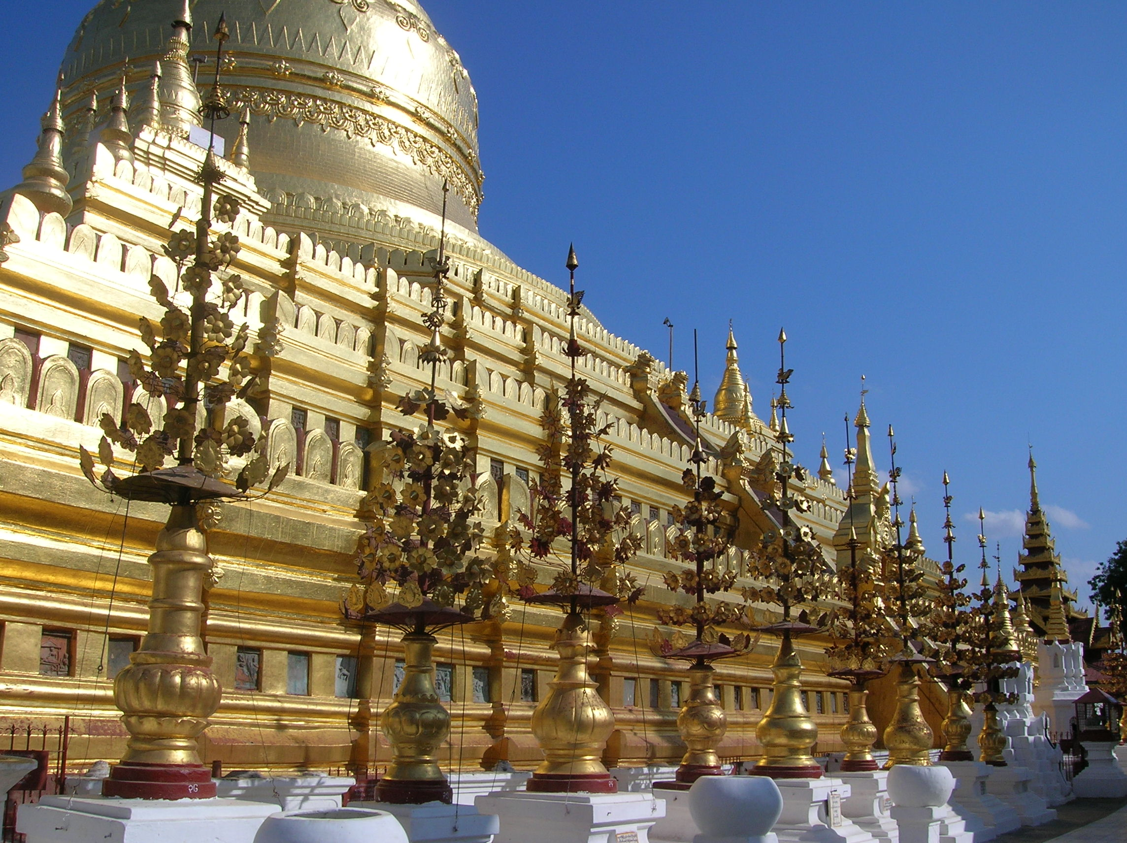 Shwezigon Paya, Bagan, Burma